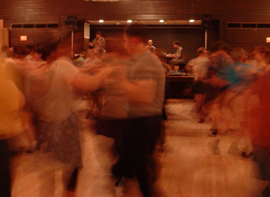 Thursday night Contra dance at the VFW Hall in Cambridge on May 15, 2003. I took this picture. --agr 30 June 2005 19:14 (UTC)